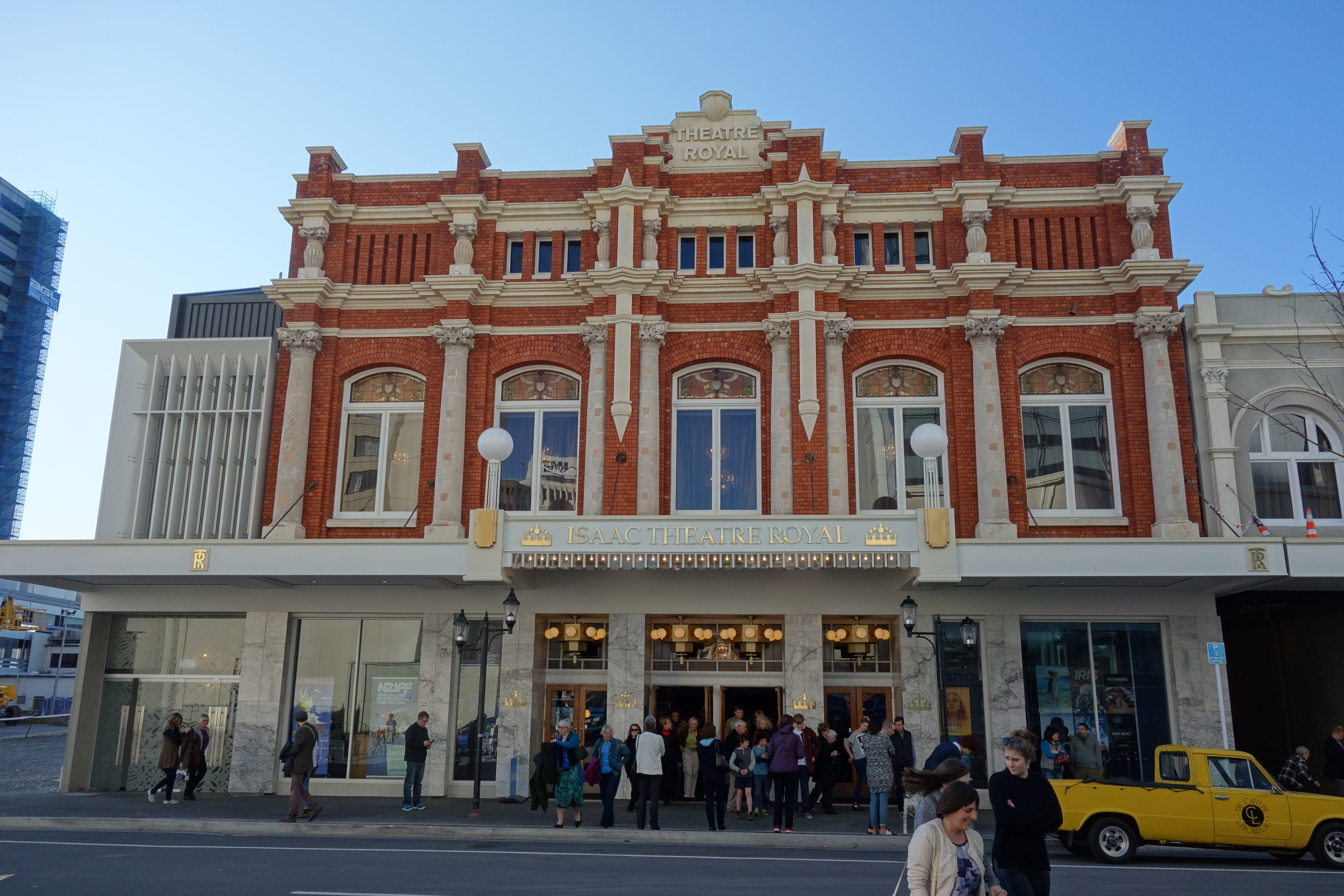 Isaac Theatre Royal in August 2015